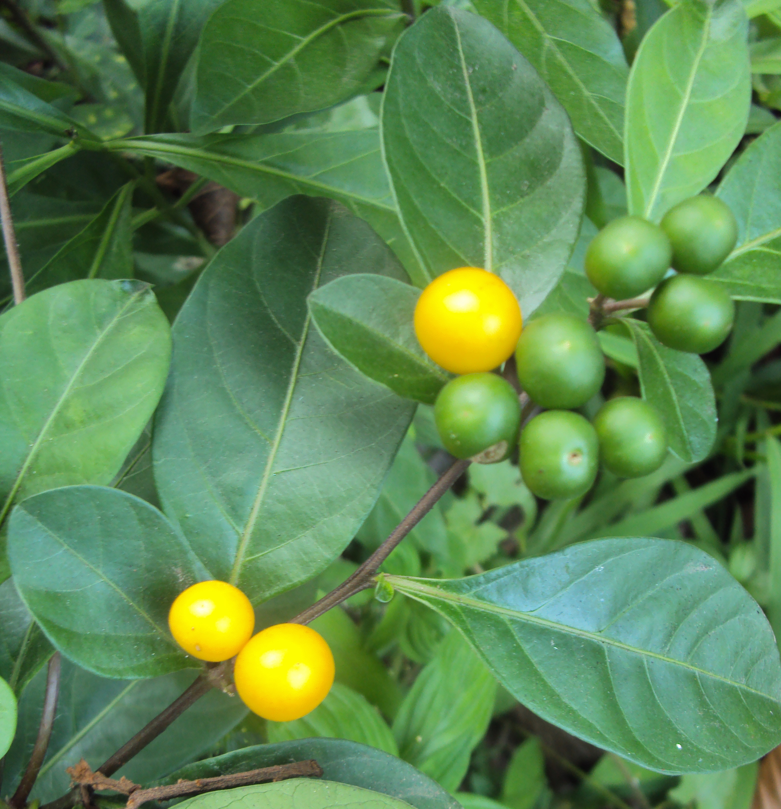 Solanum diphyllum